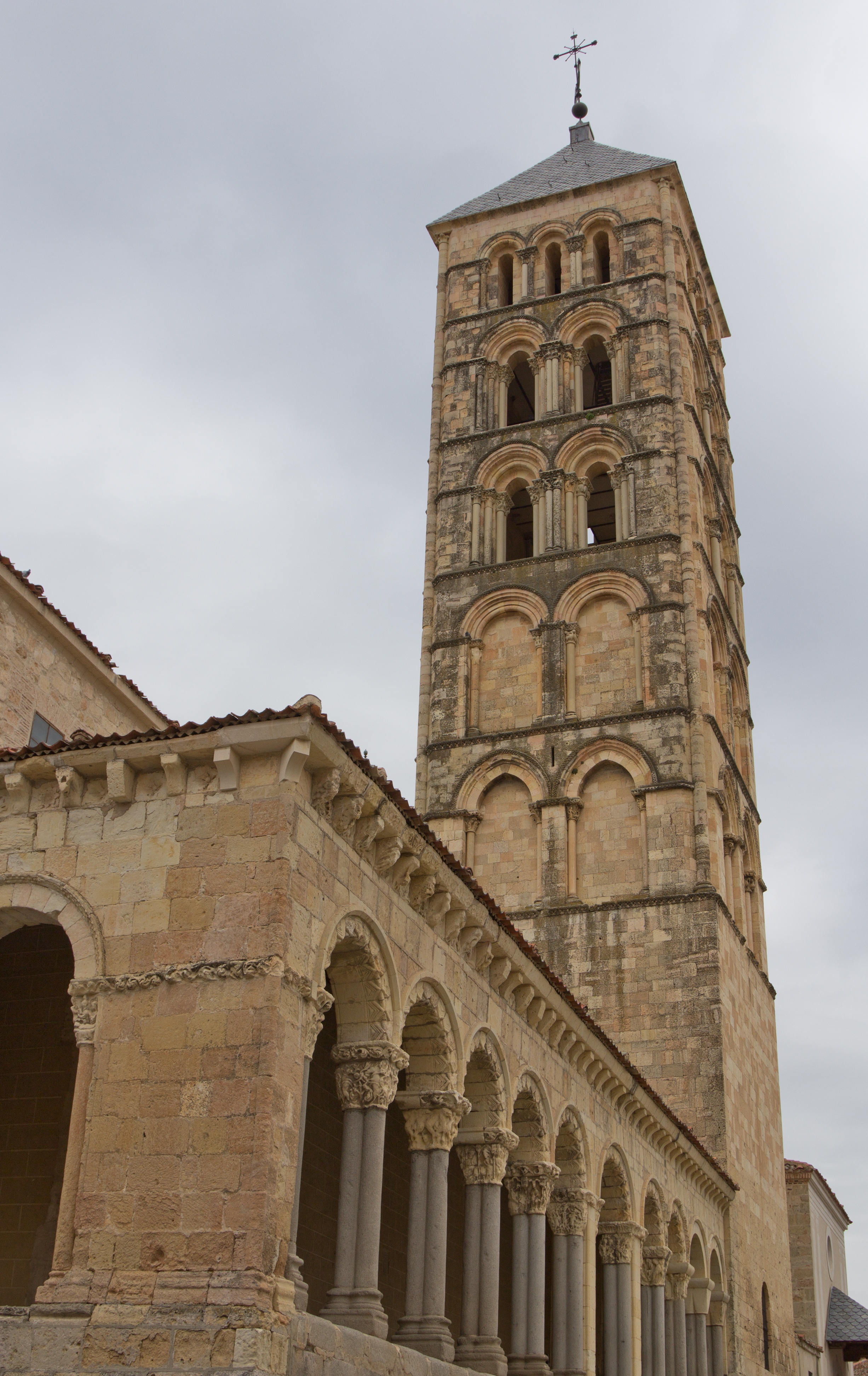 Church of San Esteban, Segovia, Spain.